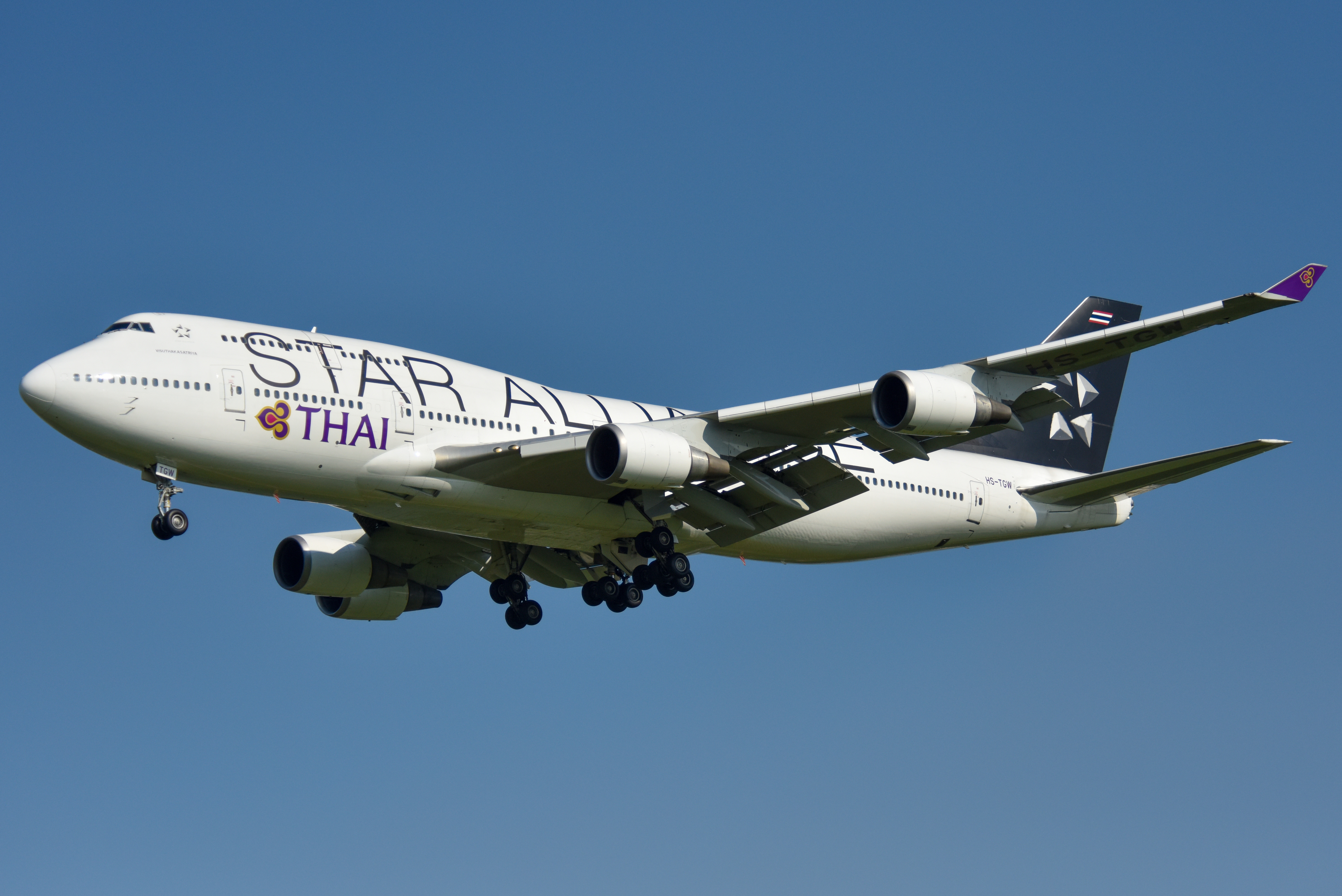 Thai 614 from Bangkok, today the Star Alliance logojet landed 36R.